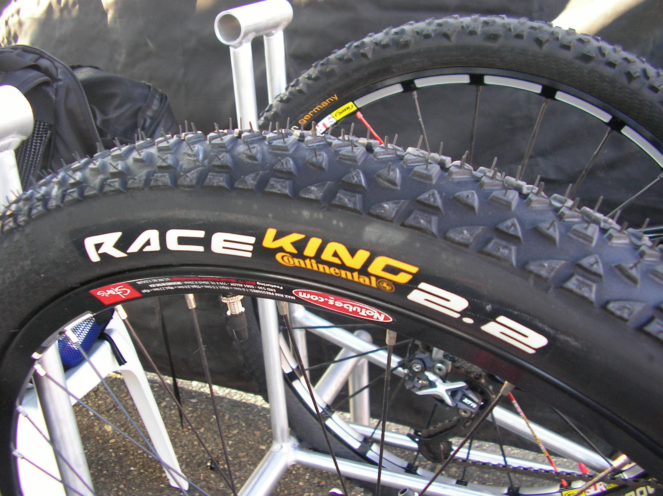 Continental Race King Supersonic with Black Chili compound rubber. The tire is Hand Made in Germany for the ultimate in quality control.